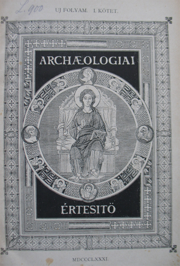 Archaeologiai Értesítő 1881